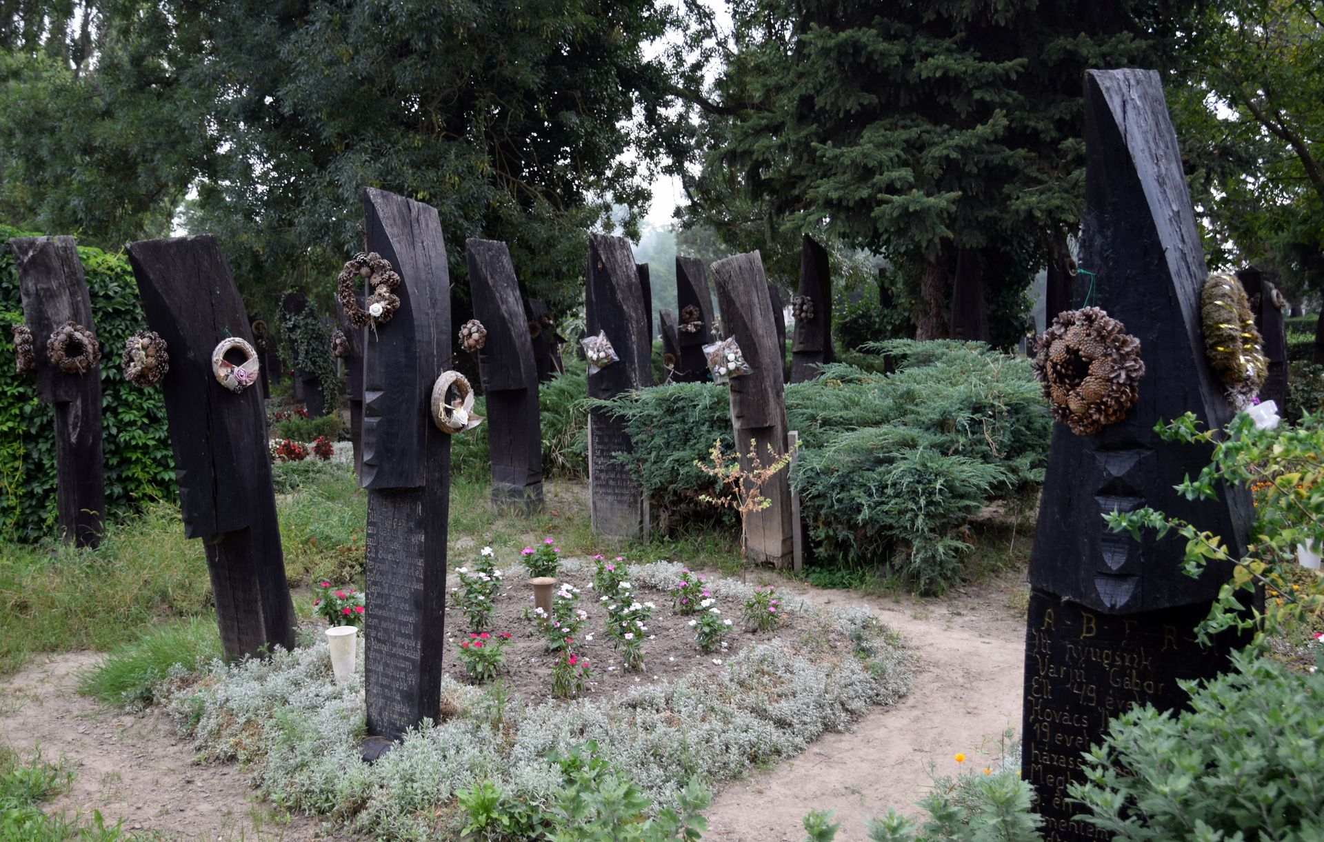 Szatmárcseke, cemetery